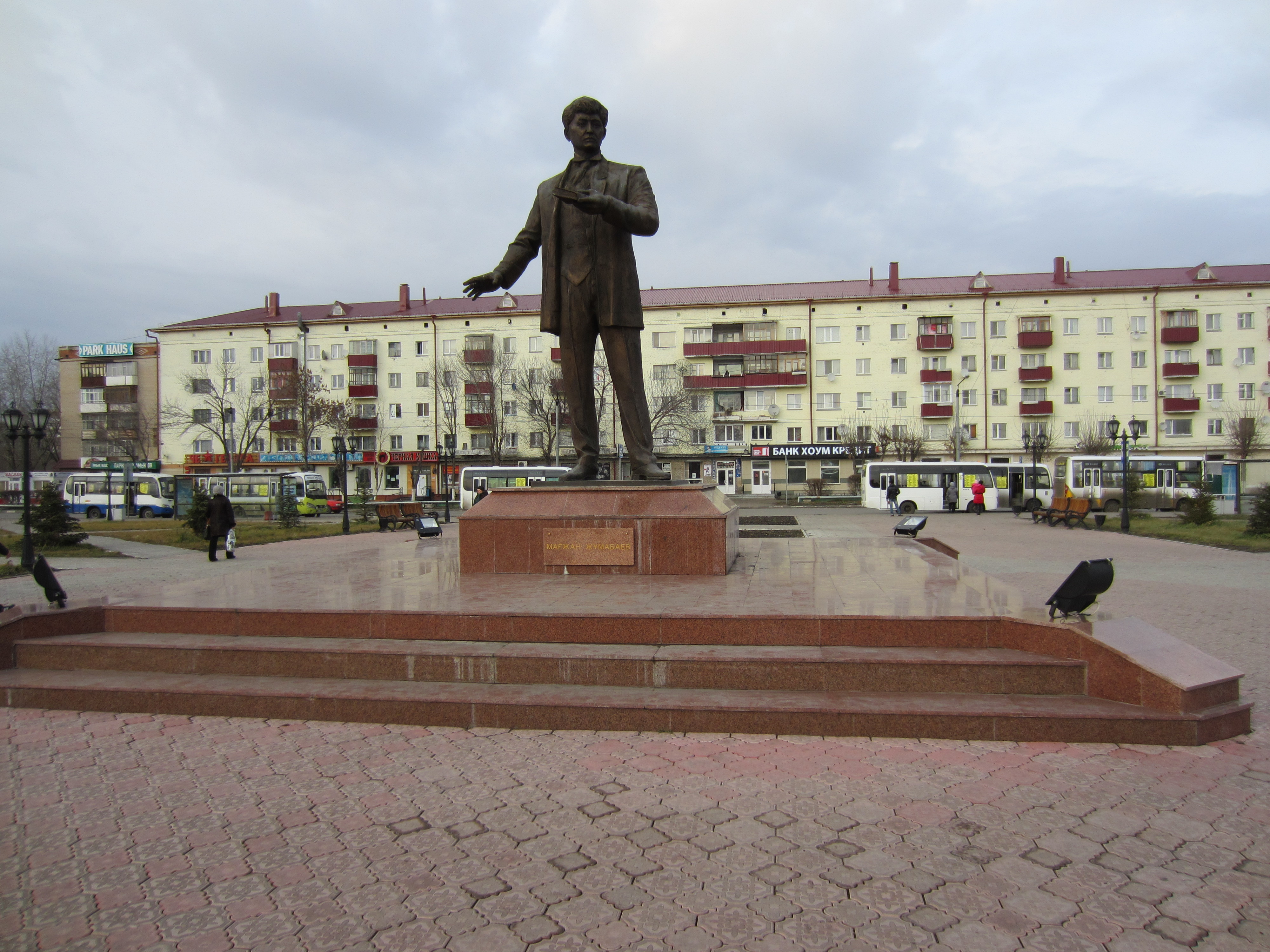 A statue of Mağjan Jumabayev in front of the train stration in Petropavl, Kazakhstan.